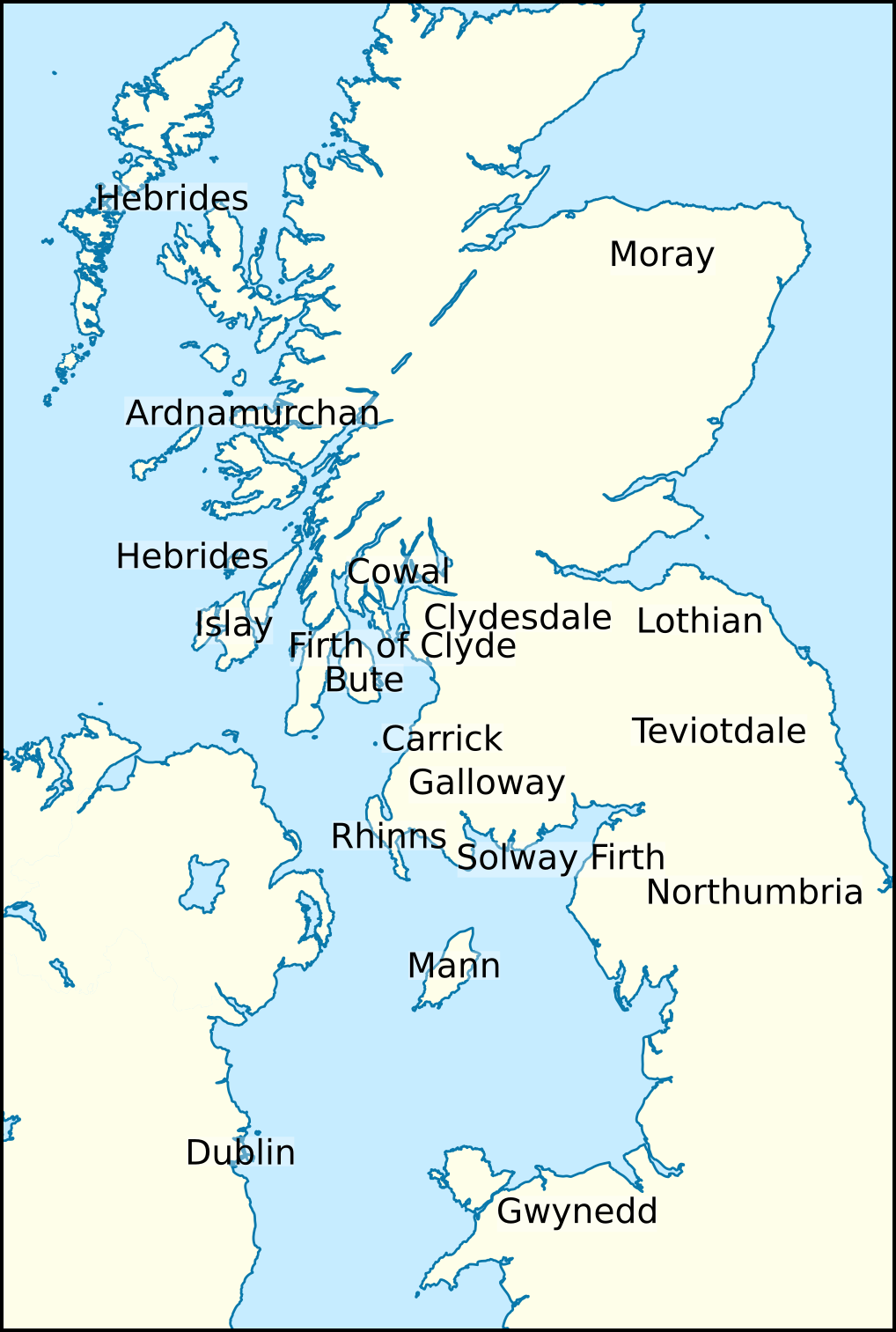 Map created for the Wikipedia article concerning Suibne mac Cináeda, King of the Gall Gaidheil (died 1034).